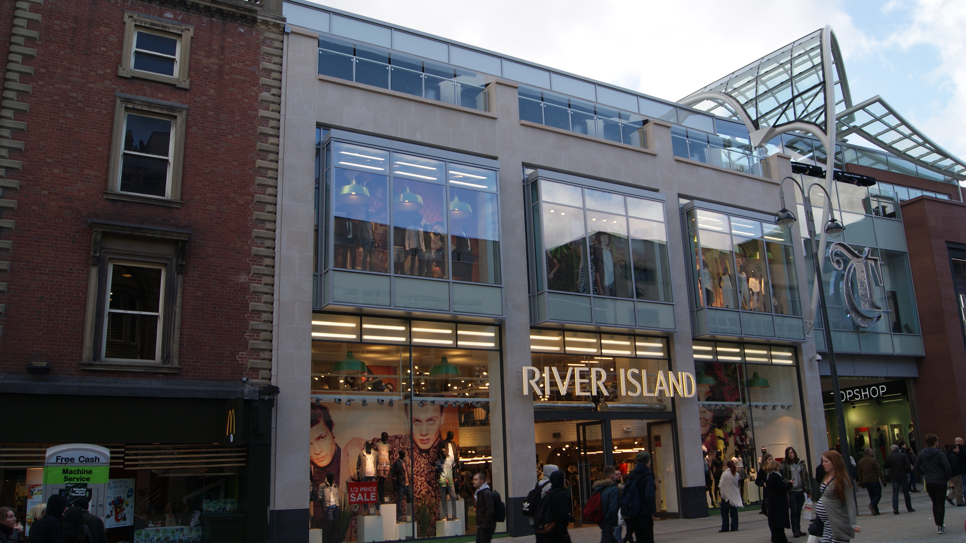 River Island, Trinity Leeds, Briggate, Leeds, West Yorkshire. Taken on the afternoon of Saturday the 30th of March 2013.